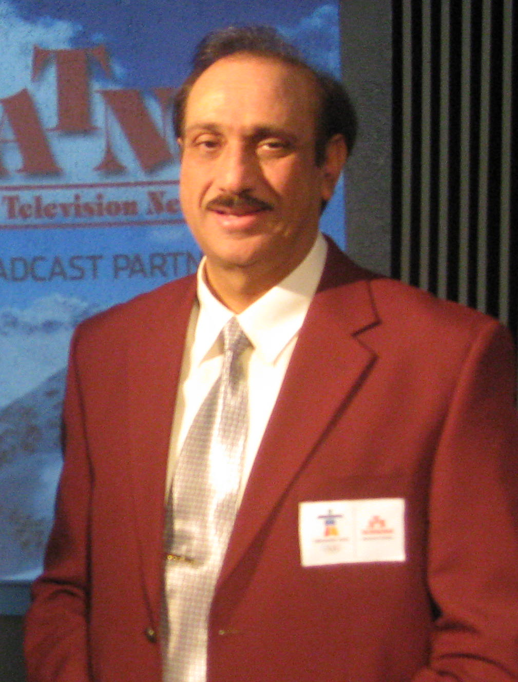 Ashfaq Hussain (right) after broadcasting Canada's first medal at the 2010 Vancouver Winter Olympics, with special Olympic guest analyst Salman Bazmi.